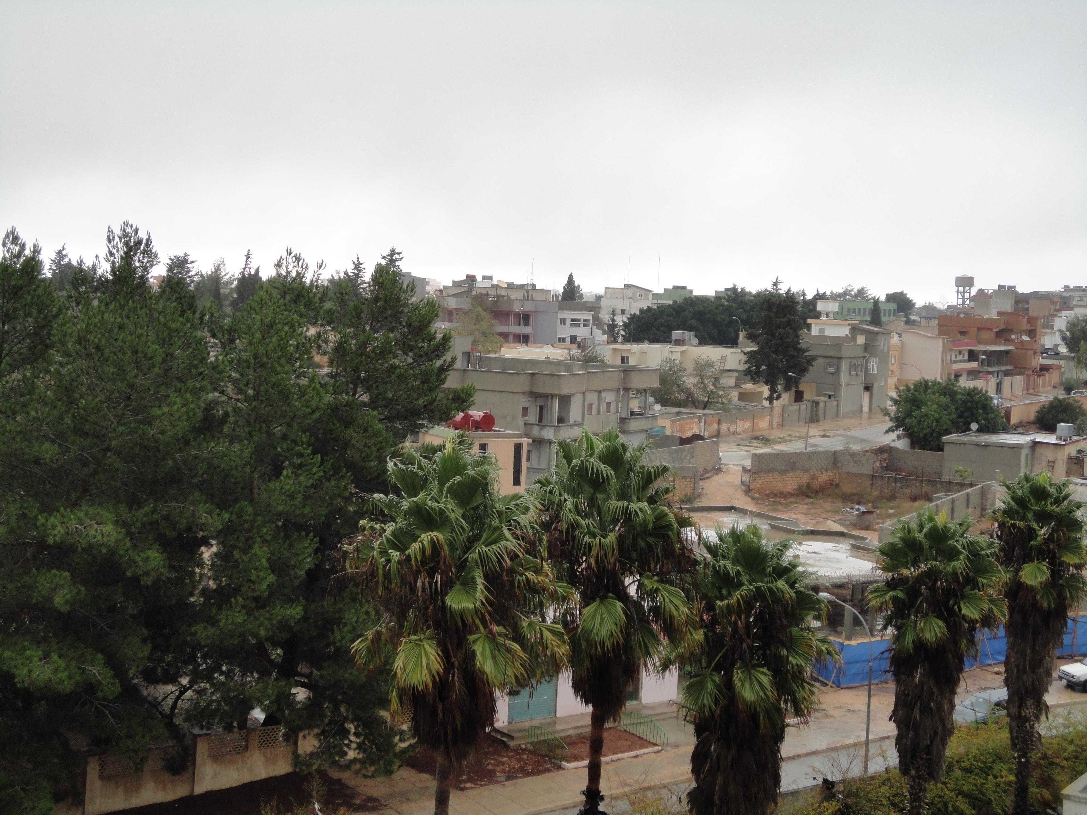 Neighborhood of Al-Andalus in Bayda city of Libya in 2010-11-14.